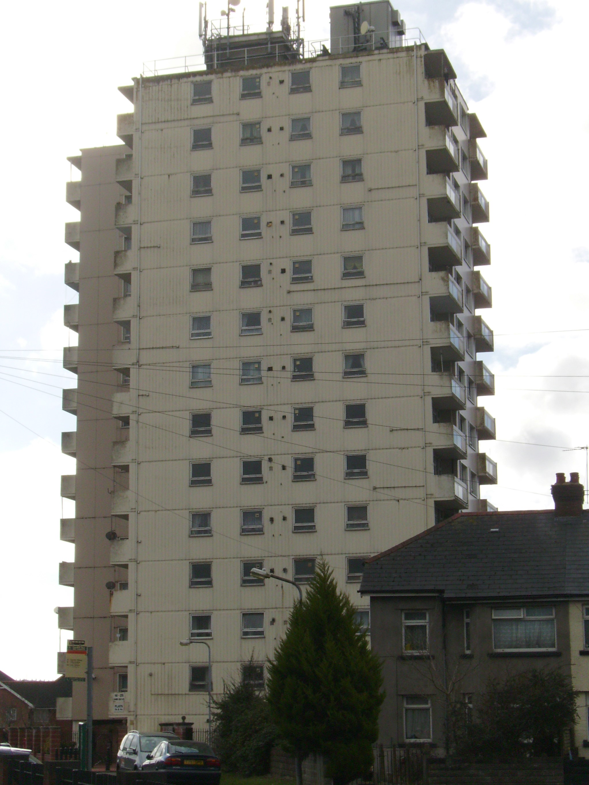 Channel View Flats, Grangetown, Cardiff, Wales